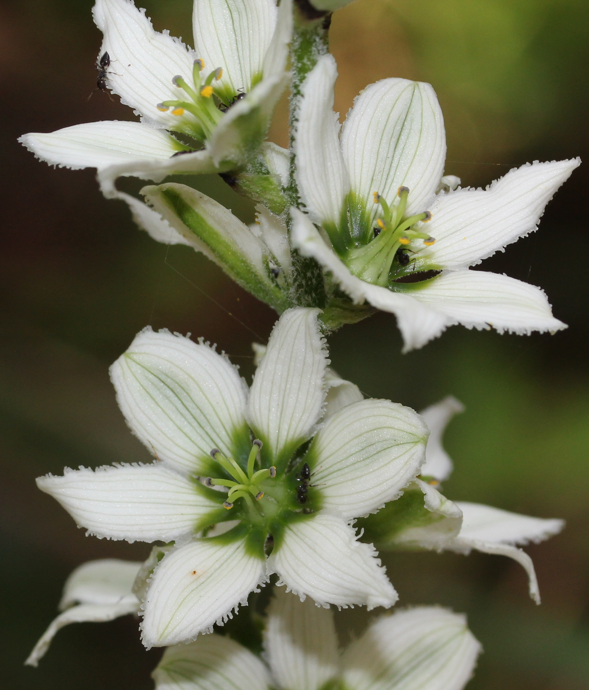 False Helleborine (Veratrum album subsp. oxysepalum), in Yumihari Mountains, Toyohashi, Aichi pref., Japan.